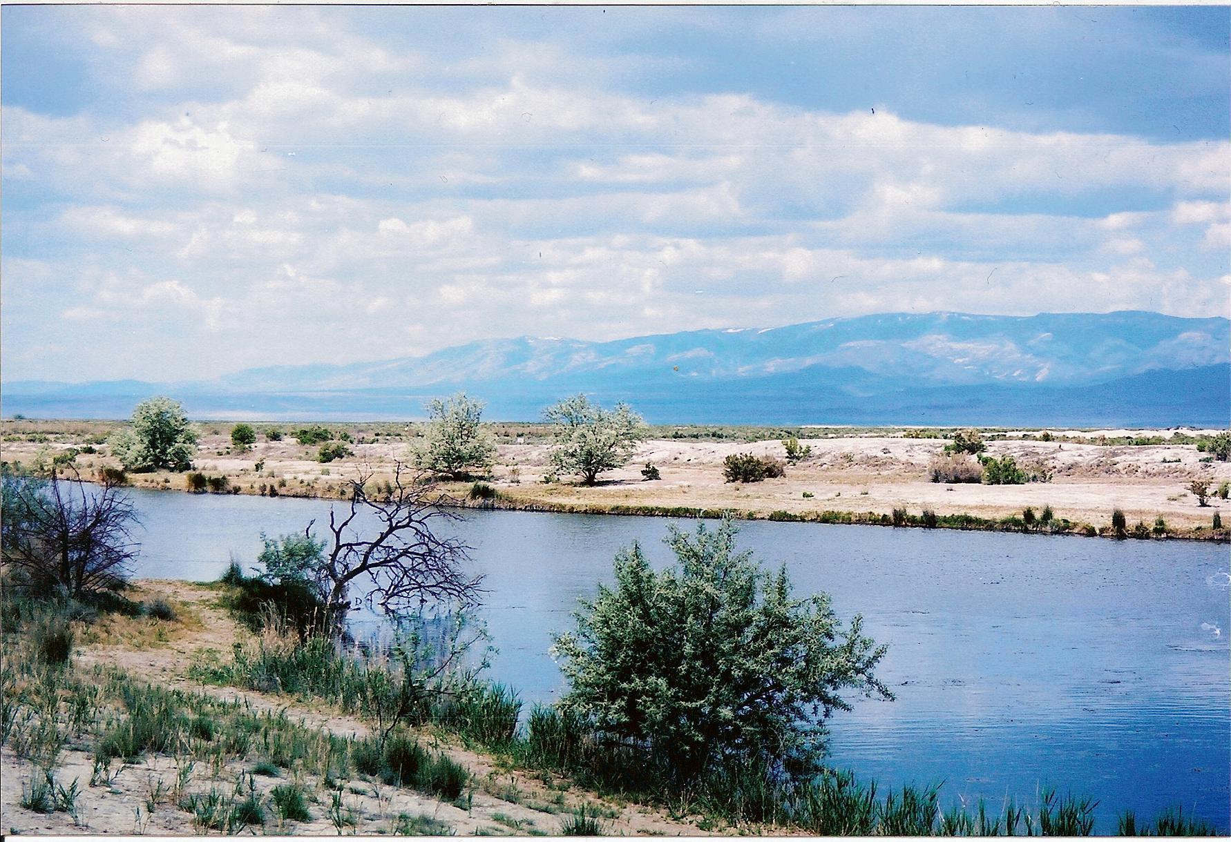 Locomotive Springs Wildlife Management Area, Box Elder County, Utah View northwest of Raft River Mountains; the lower elevation hill at right, Wildcat Hills, 5,077 feet (1,547 m) (Utah DeLorme Atlas & at southwest region of the Curlew Valley).